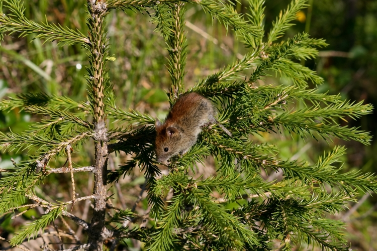 Myodes rutilus in Savukoski, Lapland (Lapland, Finland).